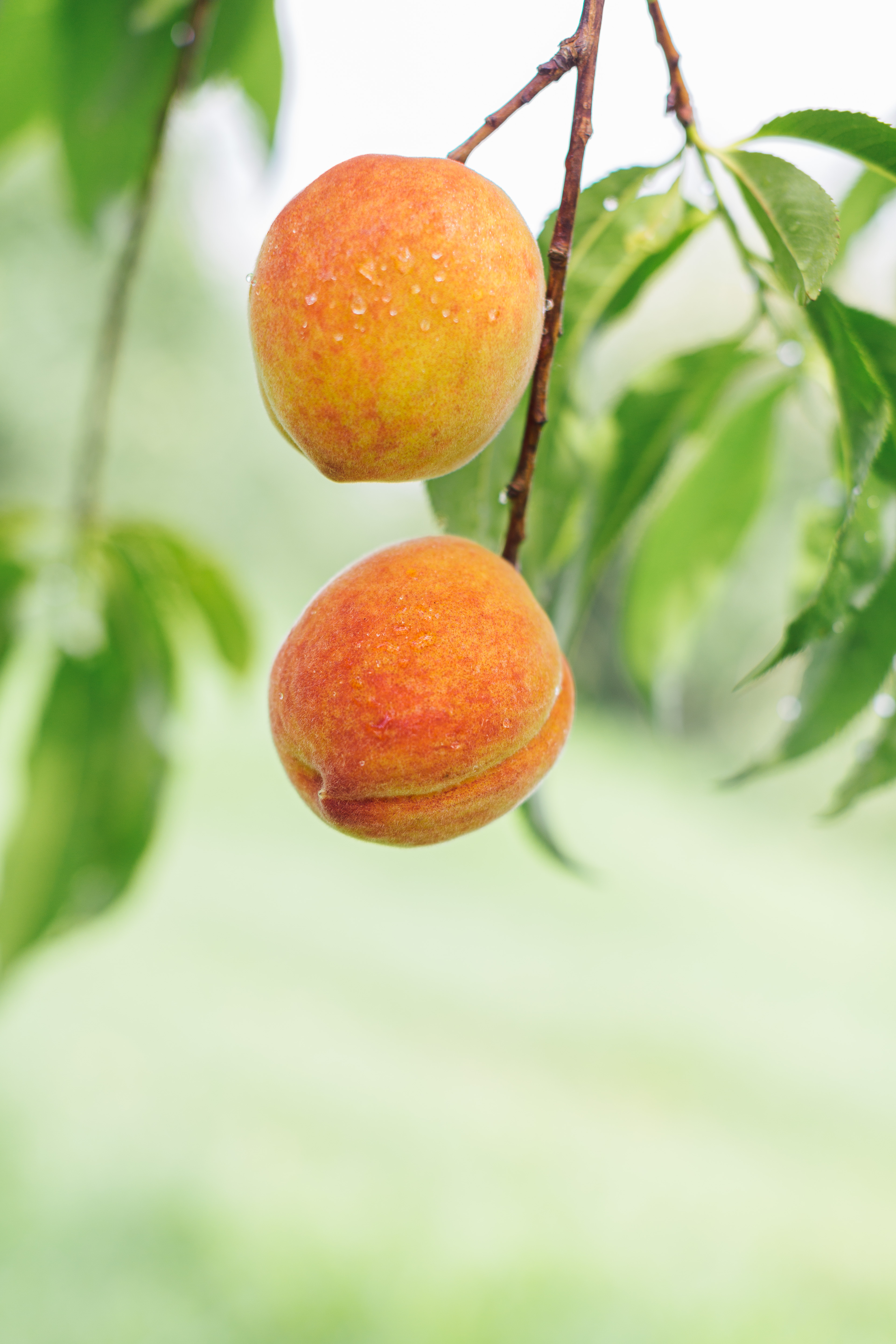 Applecrest Farm Orchards